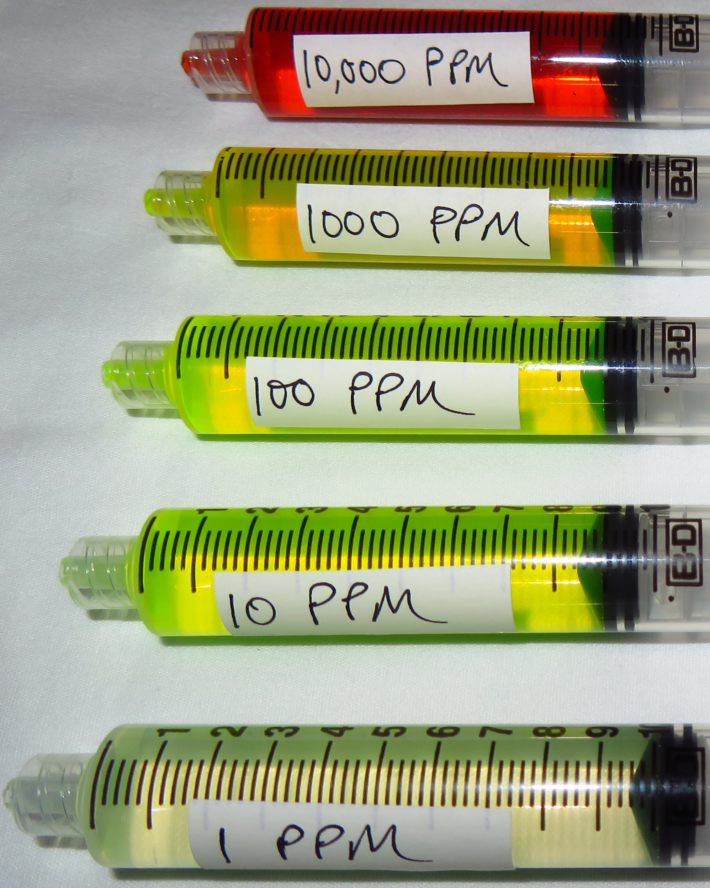 fluorescein solution in various dilutions